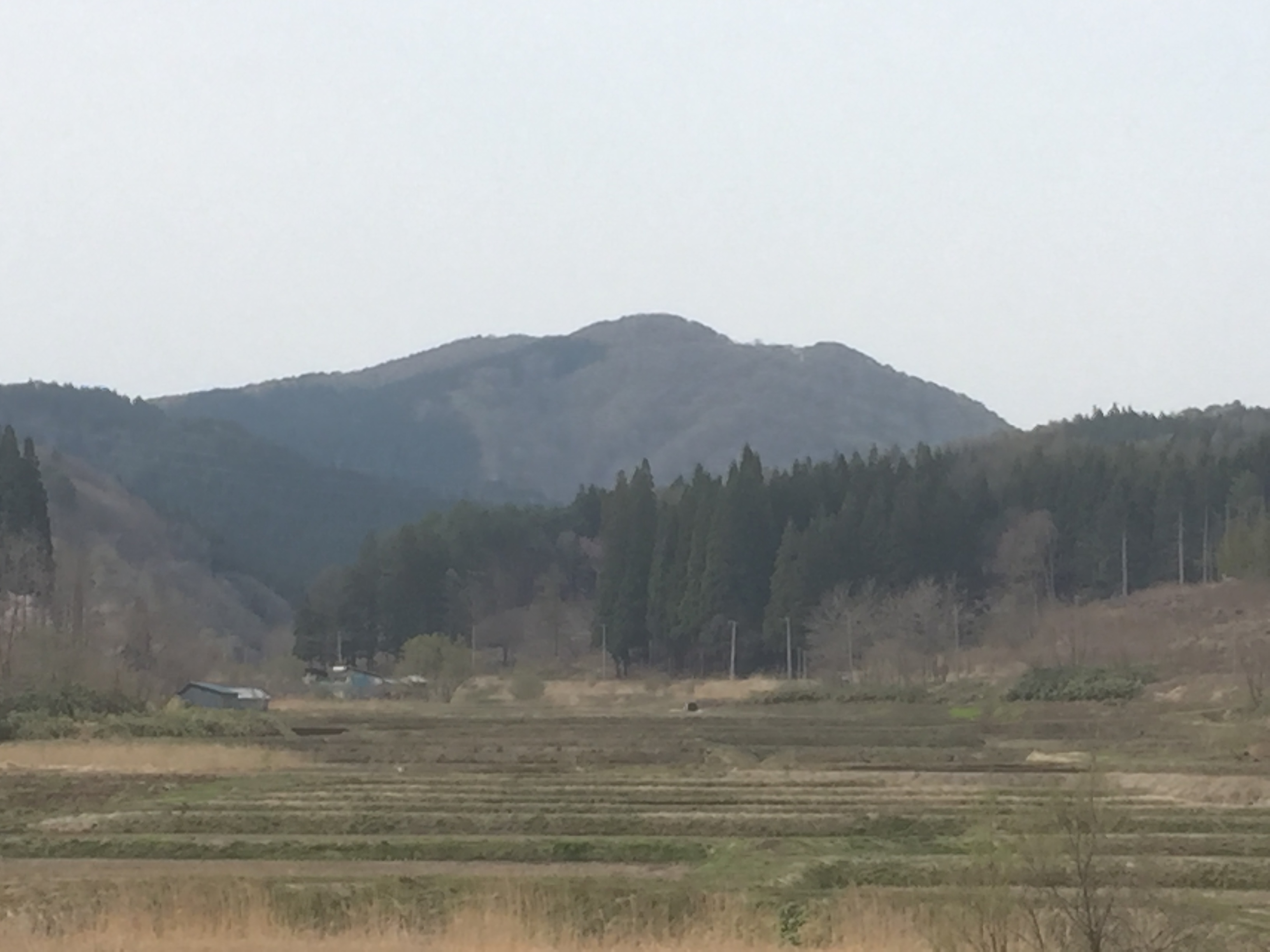 Mount Bonju as seen from the SSE. Taken from National Route 7